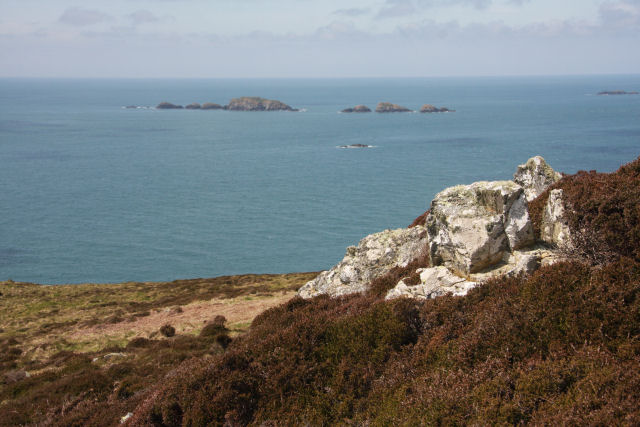 View north-westwards from Carnllundain